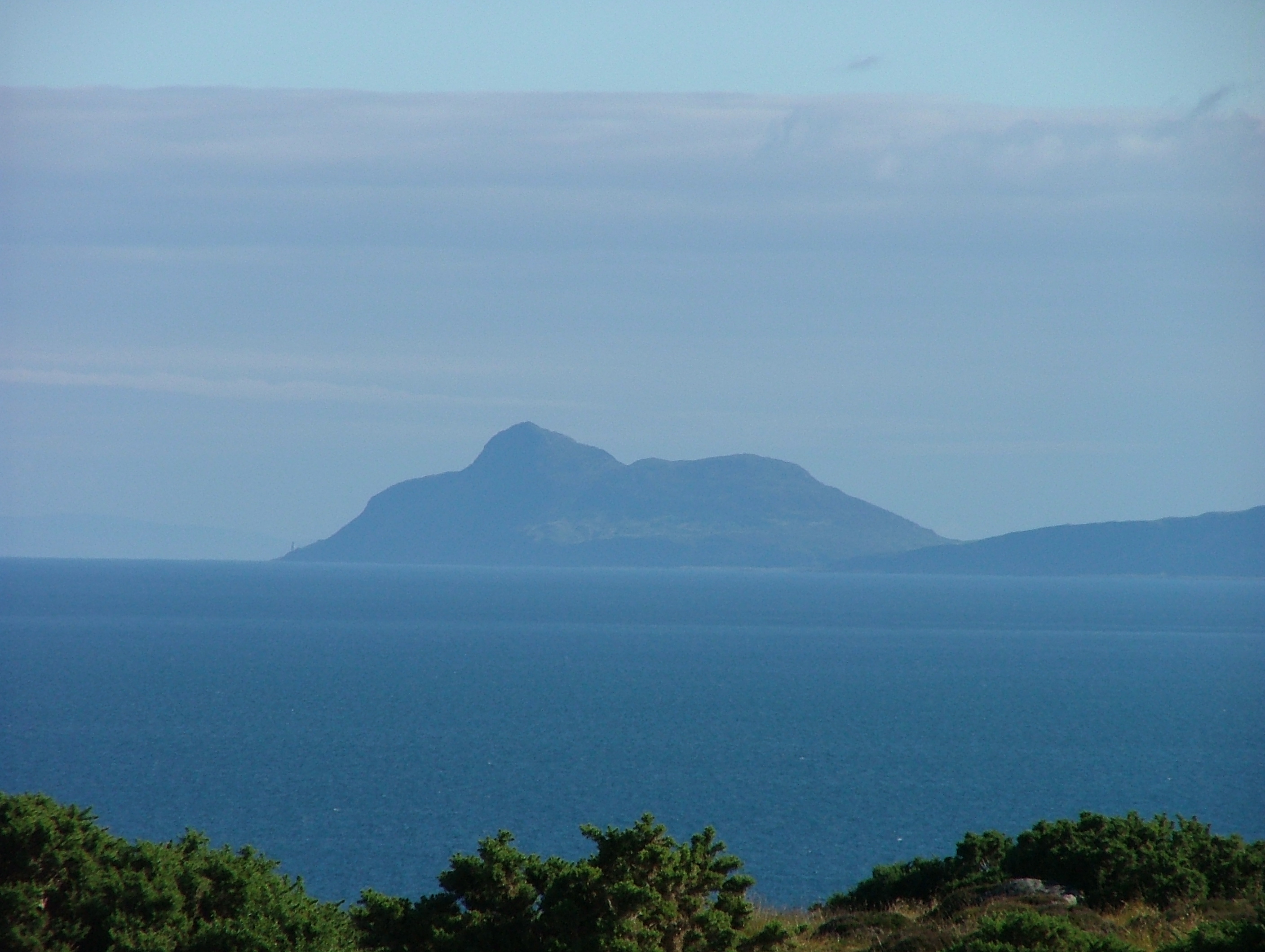 Holy Isle, Firth of Clyde viewed from Tarmore Hill on the Isle of Bute.